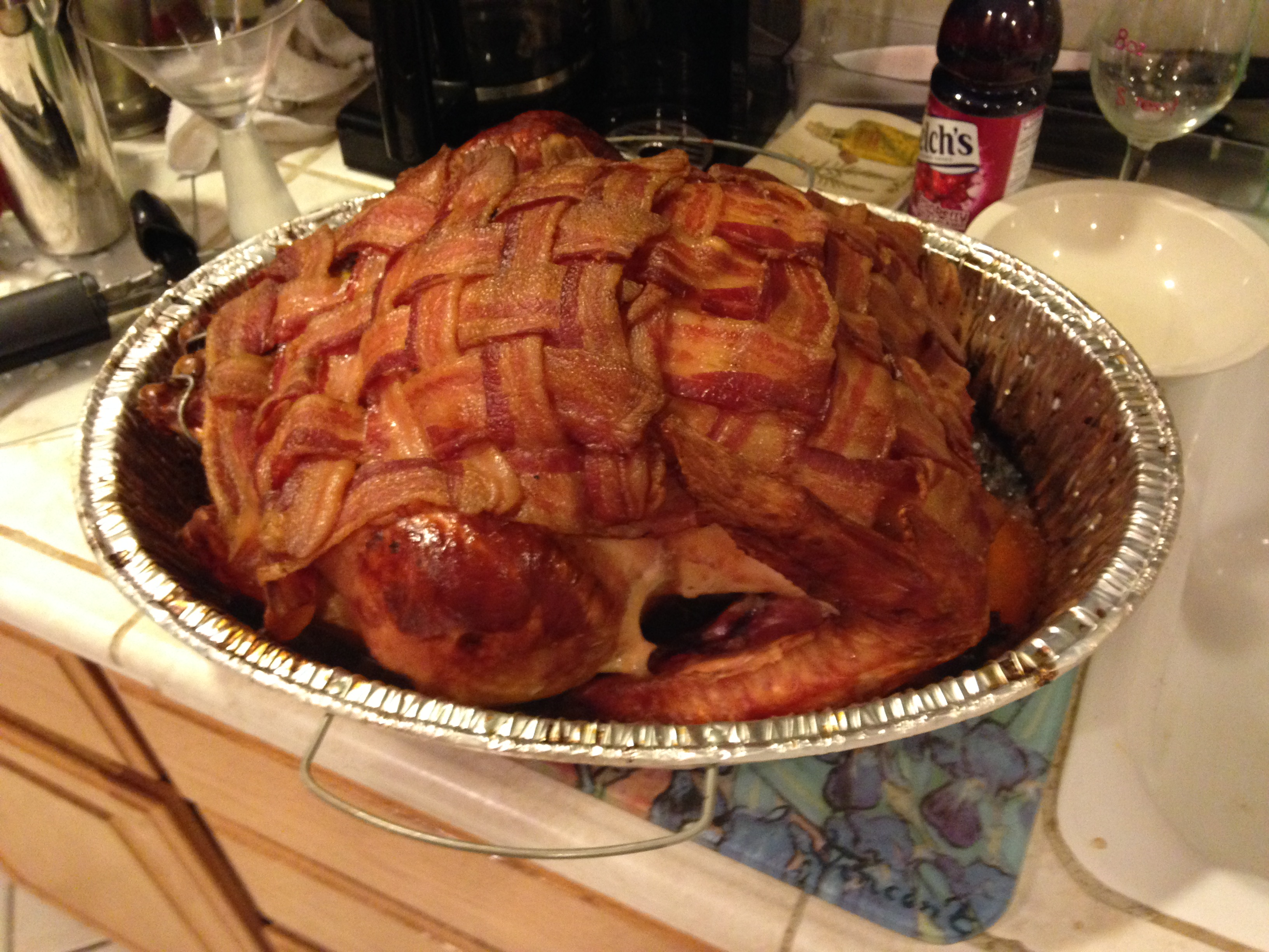 Fully cooked bacon wrapped turkey, 27 November 2014, BBQ'd in a large size Big Green Egg